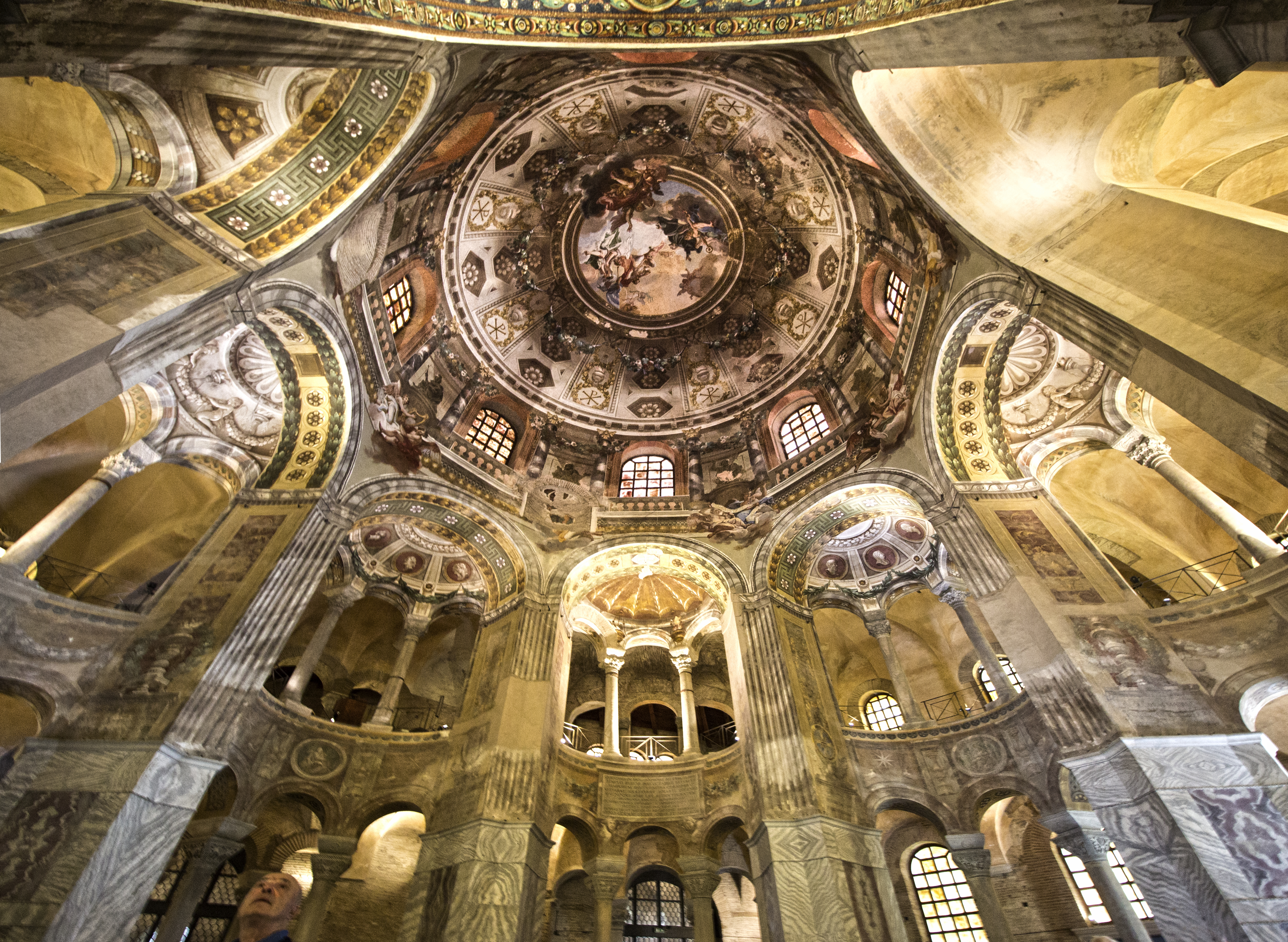 This is a photo of a monument which is part of cultural heritage of Italy.